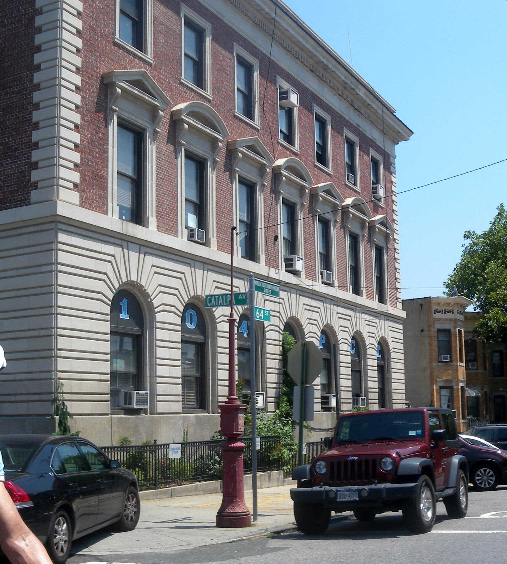 Looking southeast across Catalpa Avenue and 64th Street at 104 Precinct on a sunny afternoon.